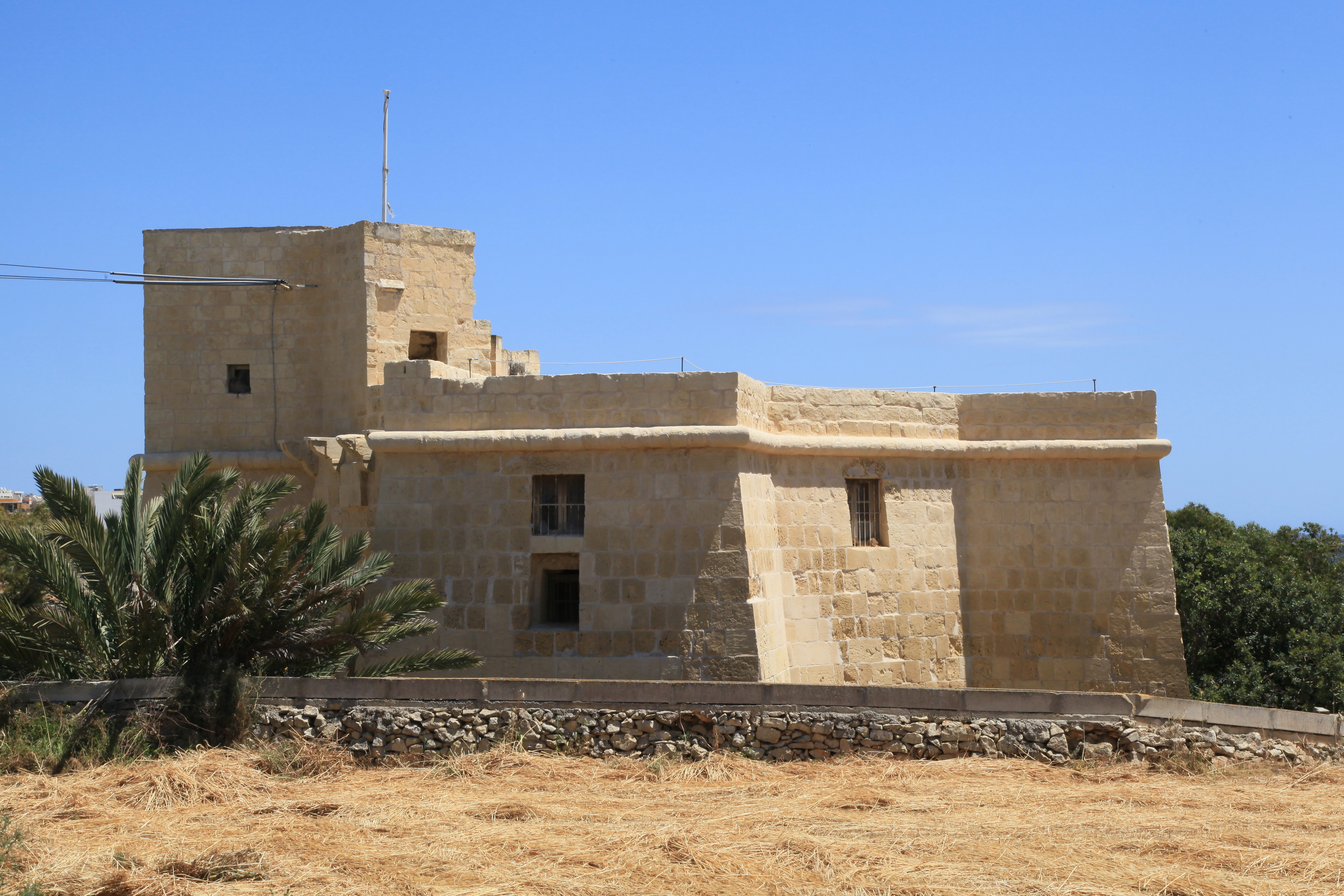 Mamo Tower at Triq id-Dahla ta' San Tumas in Marsaskala, Malta